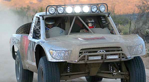 Trophy Truck driver Chad Raglnad in the Number 33 TForce Motorsport Toyota Tundra in Baja California, MEXICO during the 2007 SCORE Baja 1000.